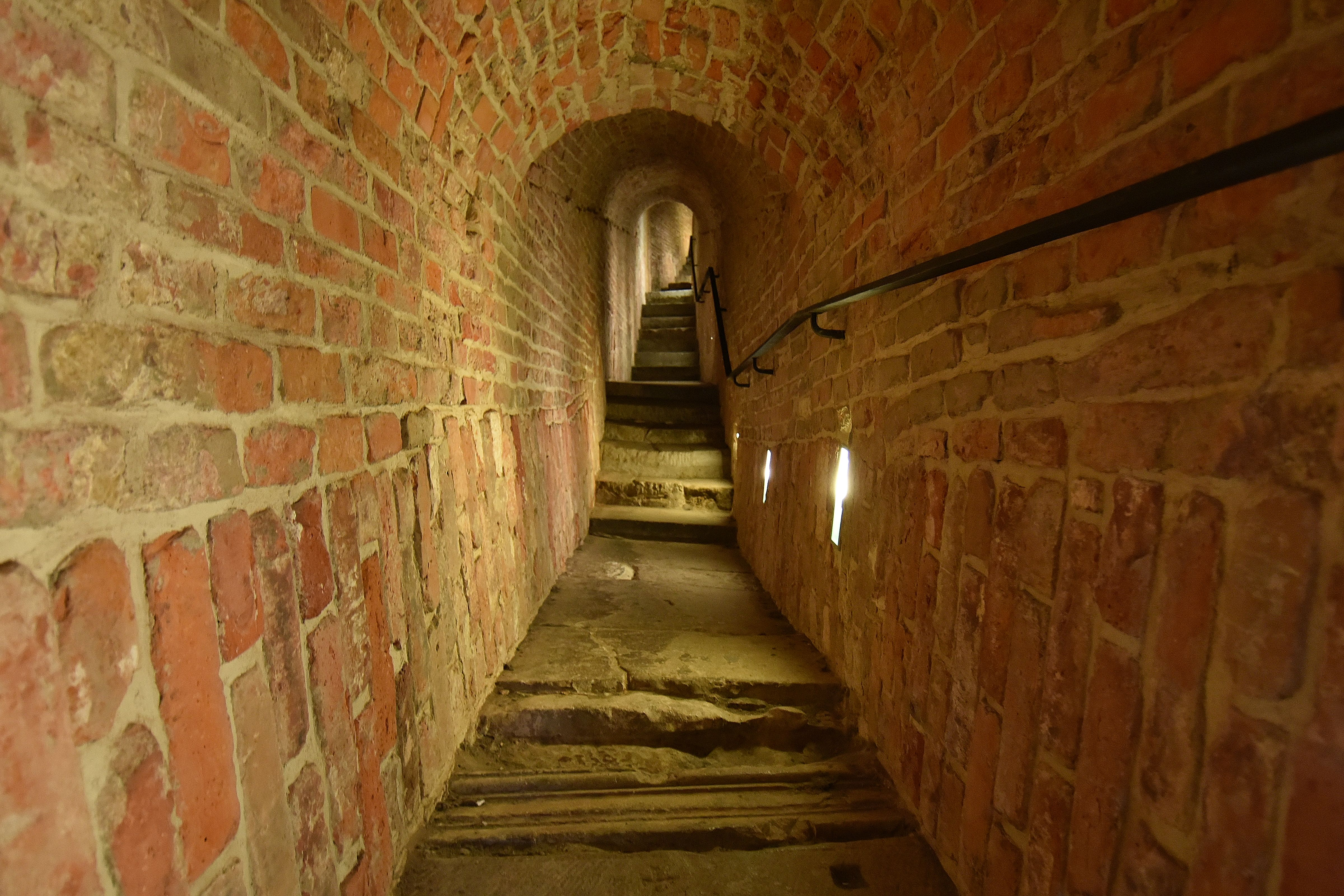 Historical tunnel in the Royal Castle in Warsaw